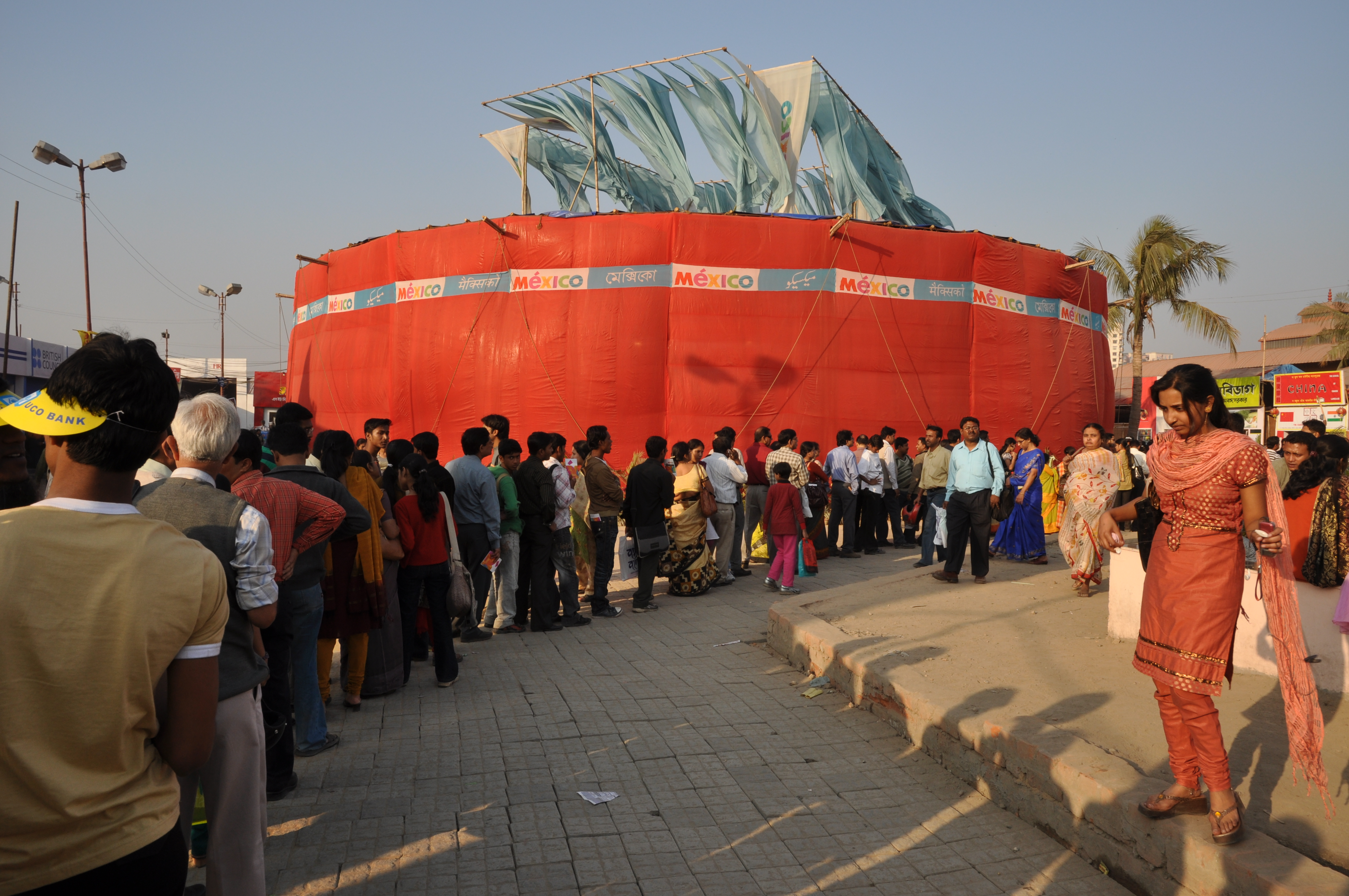 The Kolkata Book Fair (Old name: Calcutta Book Fair in English, and officially Kolkata Boimela or Kolkata Pustakmela in romanized Bengali, is a winter fair in Kolkata. It is a unique book fair in the sense of not being a trade fair - the book fair is primarily for the general public rather than whole-sale distributors. It is the world's largest non-trade book fair, Asia's largest book fair and the most attended book fair in the world. In 2010, the fair took place at ‘Milan Mela’ ground, opposite of ‘Science City’, Kolkata.